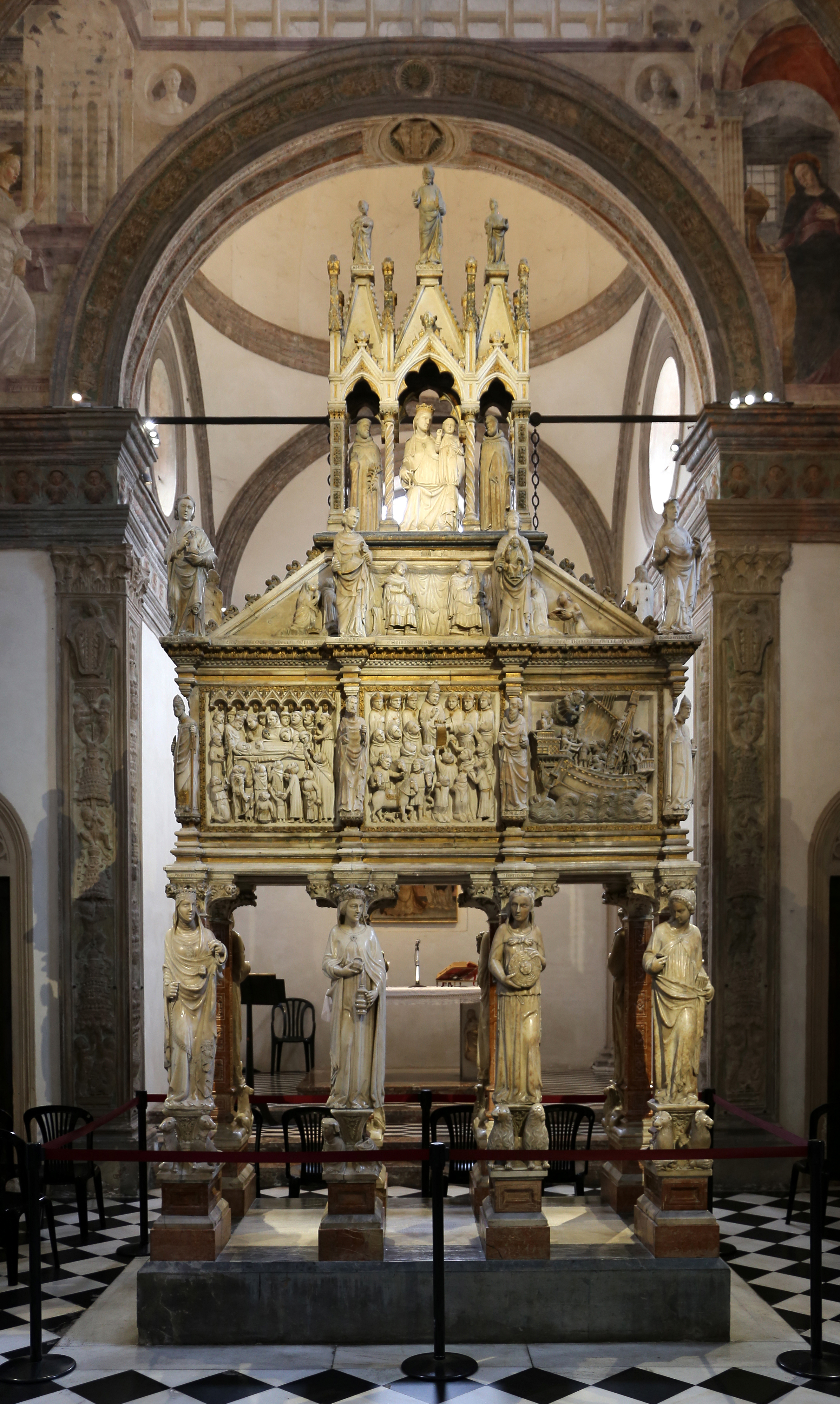 Peter of Verona's grave